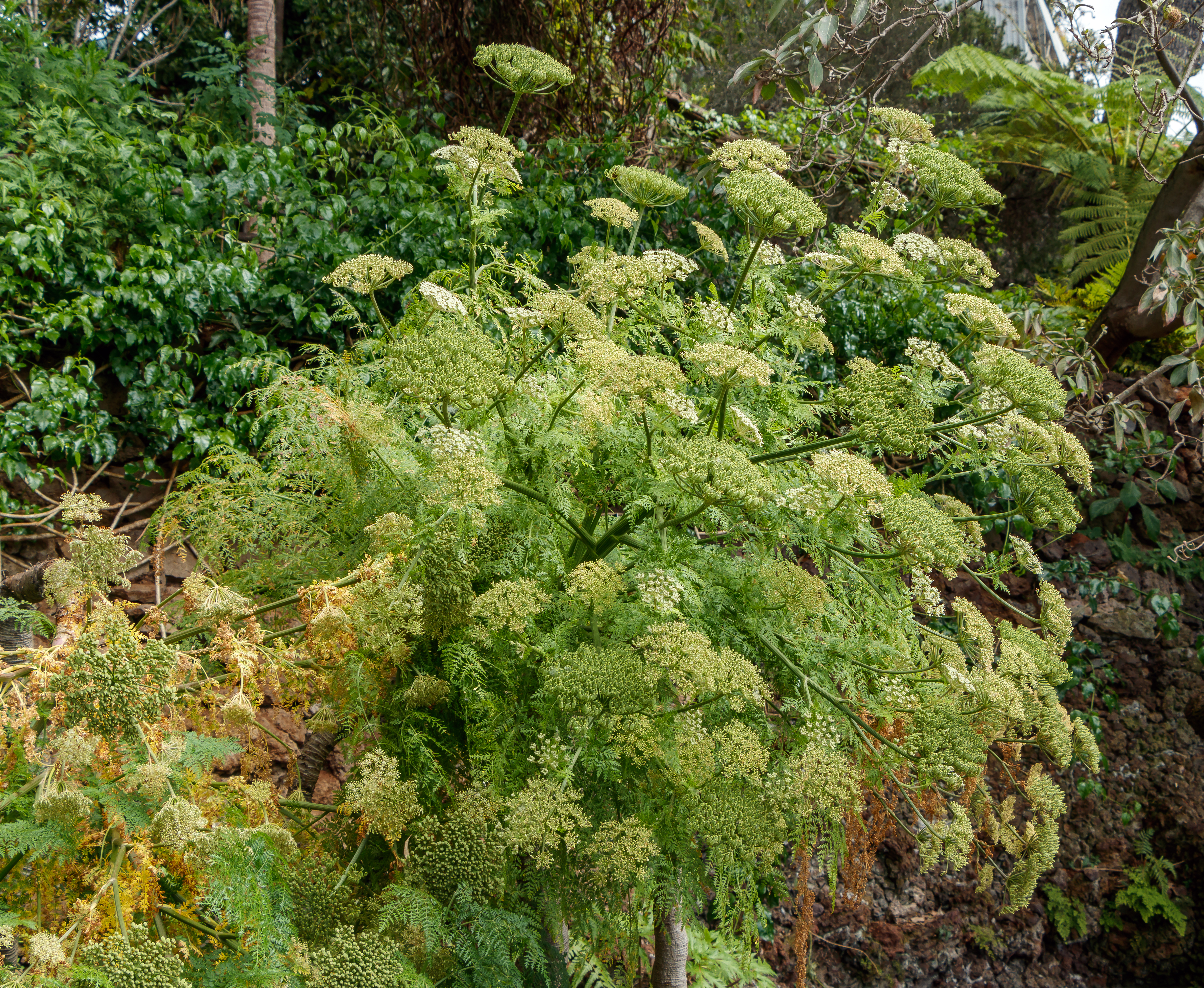 Monizia edulis Lowe, 1856, habitus; Madeira Botanical Garden, Funchal, Madeira, Portugal.